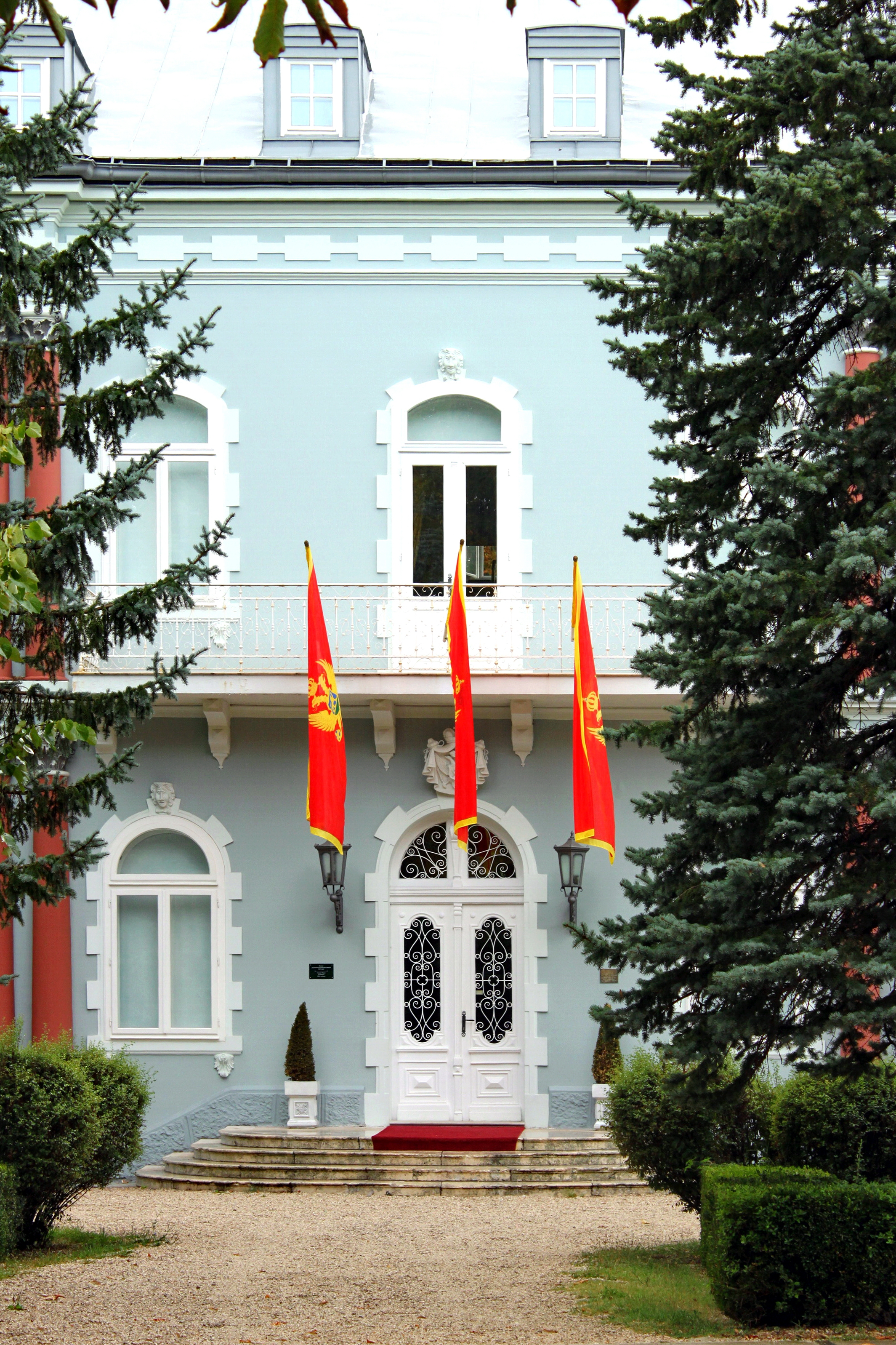 Blue Palace - the residence of the President of Montenegro. Cetinje, Montenegro.